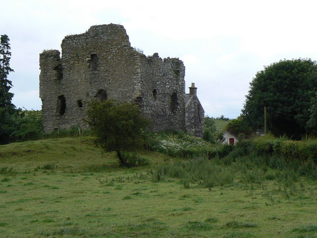 Creich Castle. In the 13th century Creich Castle belonged to Macduff, Earl of Fife. The building seen here in a ruinous state was erected in the sixteenth century after the lands had been acquired by the Bethunes.